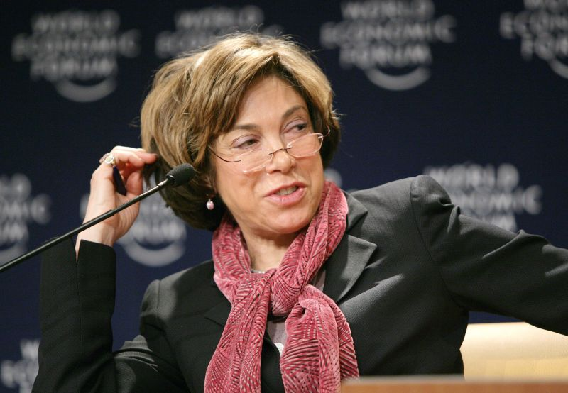 DAVOS/SWITZERLAND, 26JAN07 - Laura D. Tyson, Professor of Economics, University of California, Berkeley, USA captured during the session 'Is Freedom overrated?' at the Annual Meeting 2007 of the World Economic Forum in Davos, Switzerland, January 26, 2007. Copyright by World Economic Forum by E.T. Studhalter